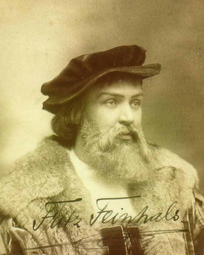 Photography of the baritonist Fritz Feinhals